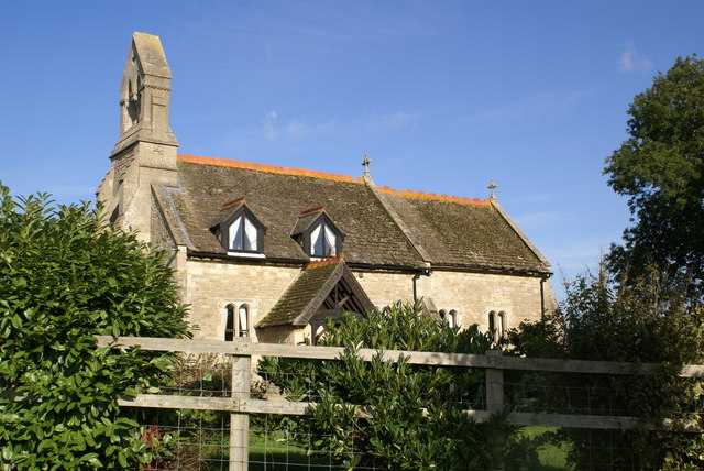 Former parish church of St Mary Magdalene, Caldecote, Cambridgeshire (formerly Huntingdonshire), seen from the south. It is now a private house, and its baptismal font is in All Saints' parish church, Morborne.